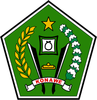 Coat of Arms (Lambang) of Regency (Kabupaten) Konawe, Provinsi Sulawesi Tenggara (South East Sulawesi), Indonesia